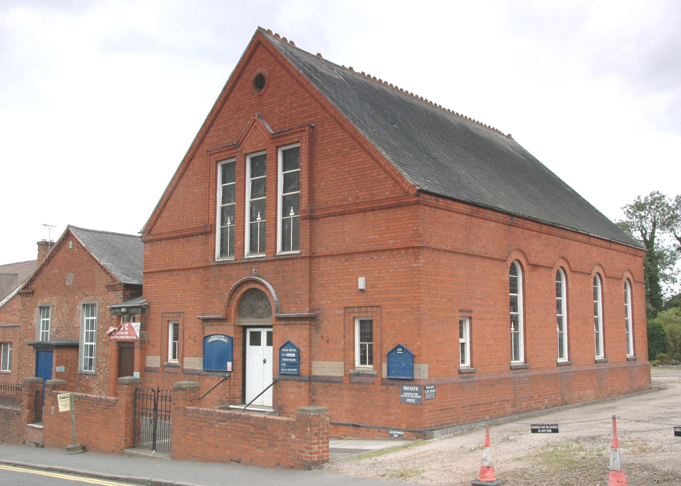 Wesleyan Chapel at Hugglescote, Leicestershire, built 1851 (smaller building on the left) and extended in 1891 (larger building on the right); now Hugglescote Methodist Church